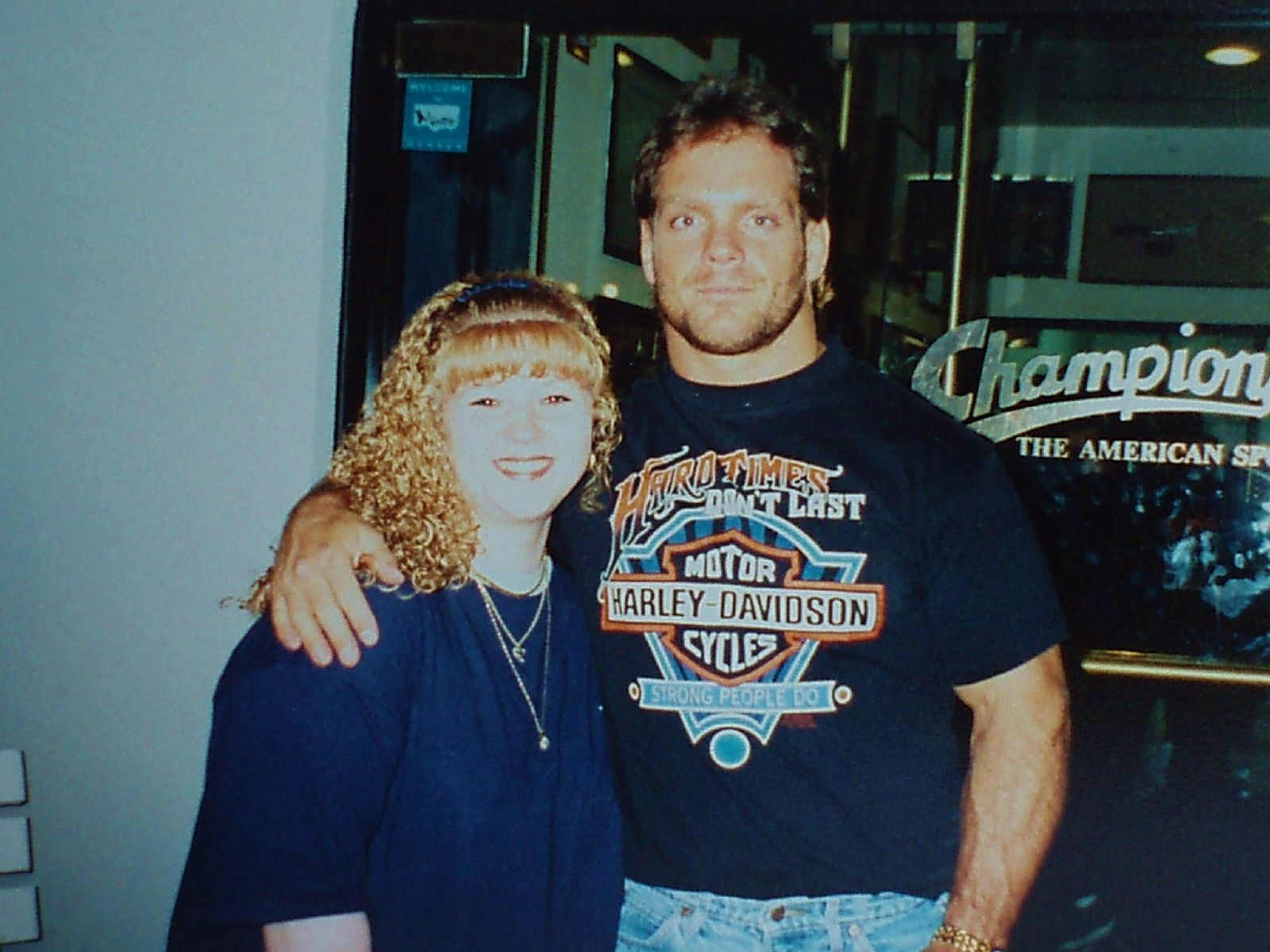 Back in the late 90's and early 2000's my group of friends and I used to stalk the wrestlers and hang out at their hotel. We had the pleasure of meeting Chris Benoit, he is the wrestler who just killed his wife, son and himself this past weeked.